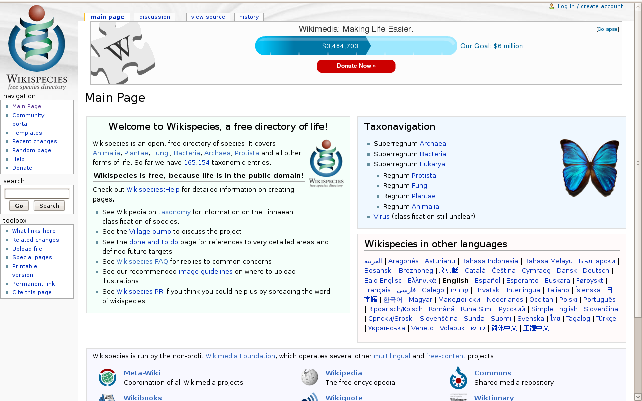 Screenshot of the Wikispecies home page (